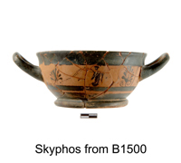 Skyphos from a kitchen in Service Building at Azoria